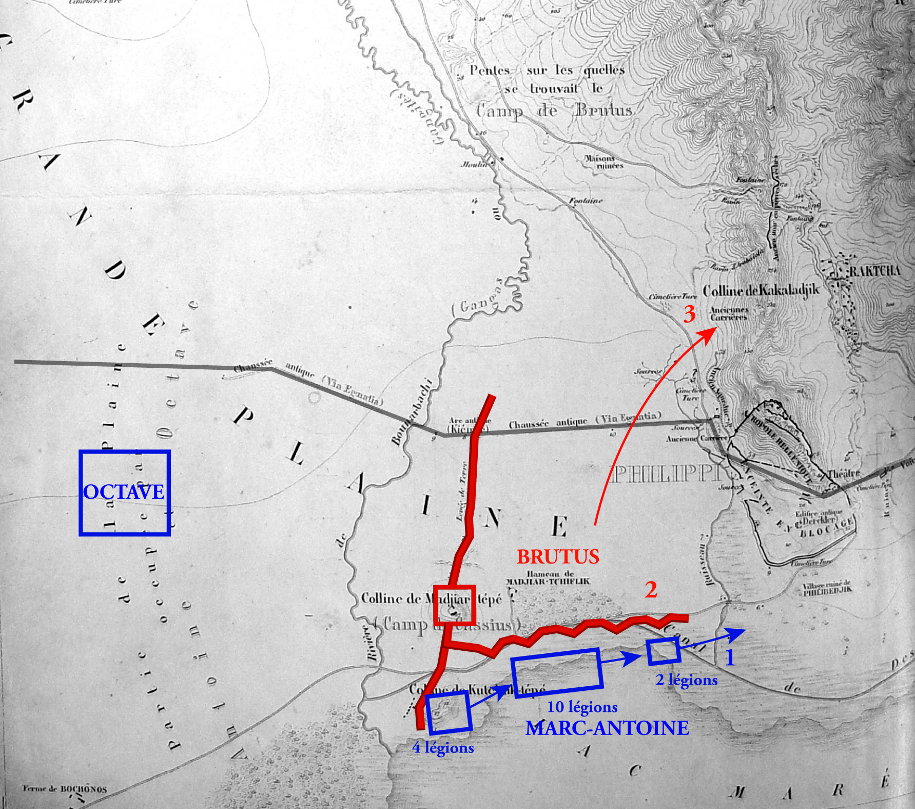 Map of the second battle of Philippi (23 october 42 BC). Movement and positions draught by Marsyas. Map scanned from L. Heuzey et H. Daumet, Mission archéologique de Macédoine, Paris, 1876.